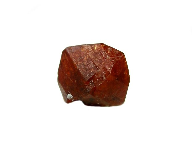 Durangite Locality: Barranca Mine, Coneto de Comonfort, Municipio de Coneto de Comonfort, Durango, Mexico (Locality at ) Size: 0.5 x 0.5 x 0.4 cm. A huge and significant crystal of this rarity. Durangite is a rare arsenate and this is from the type locality.